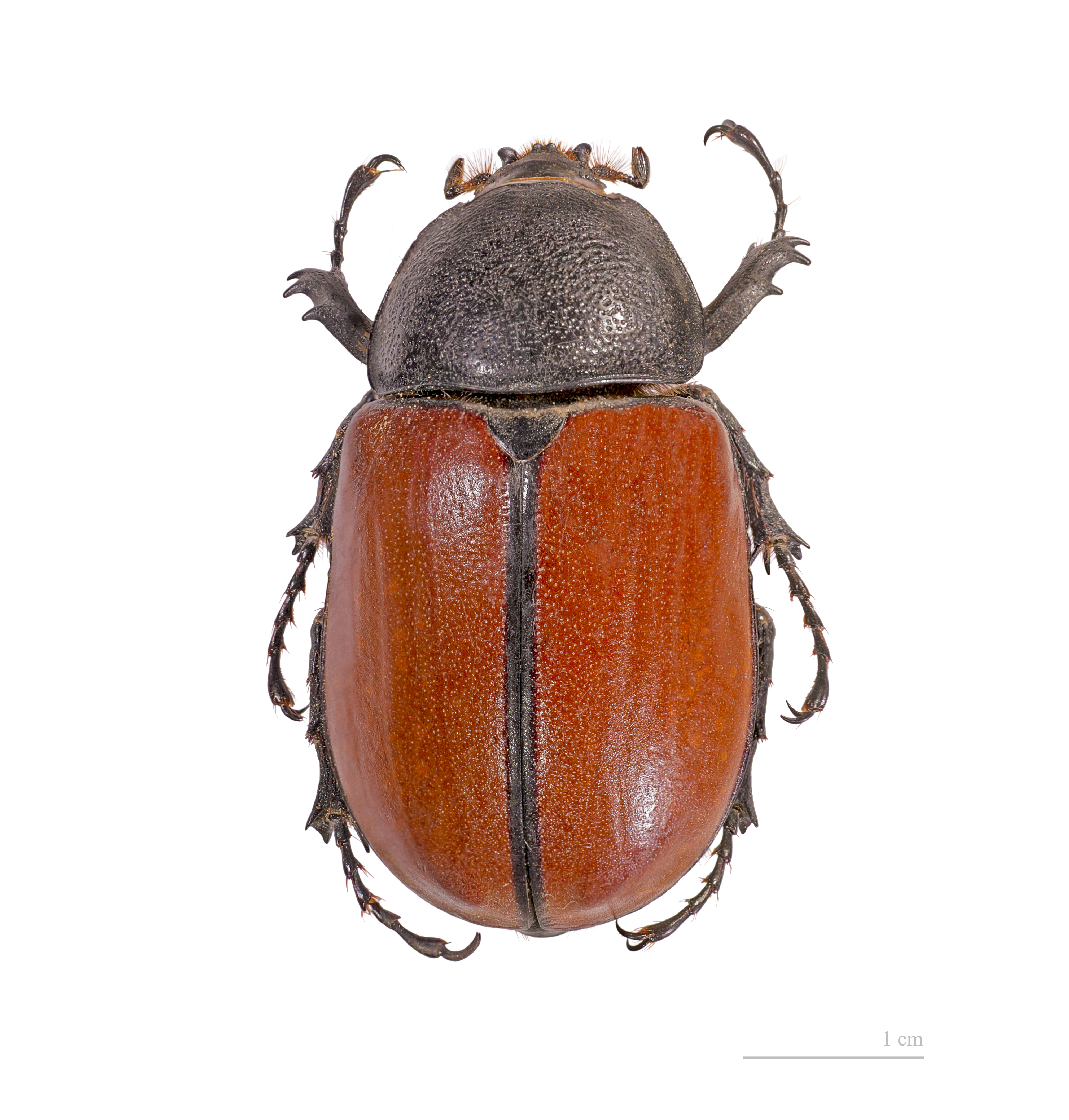 ♀ - Dorsal side Locality: Chiang Rai, Thailand.